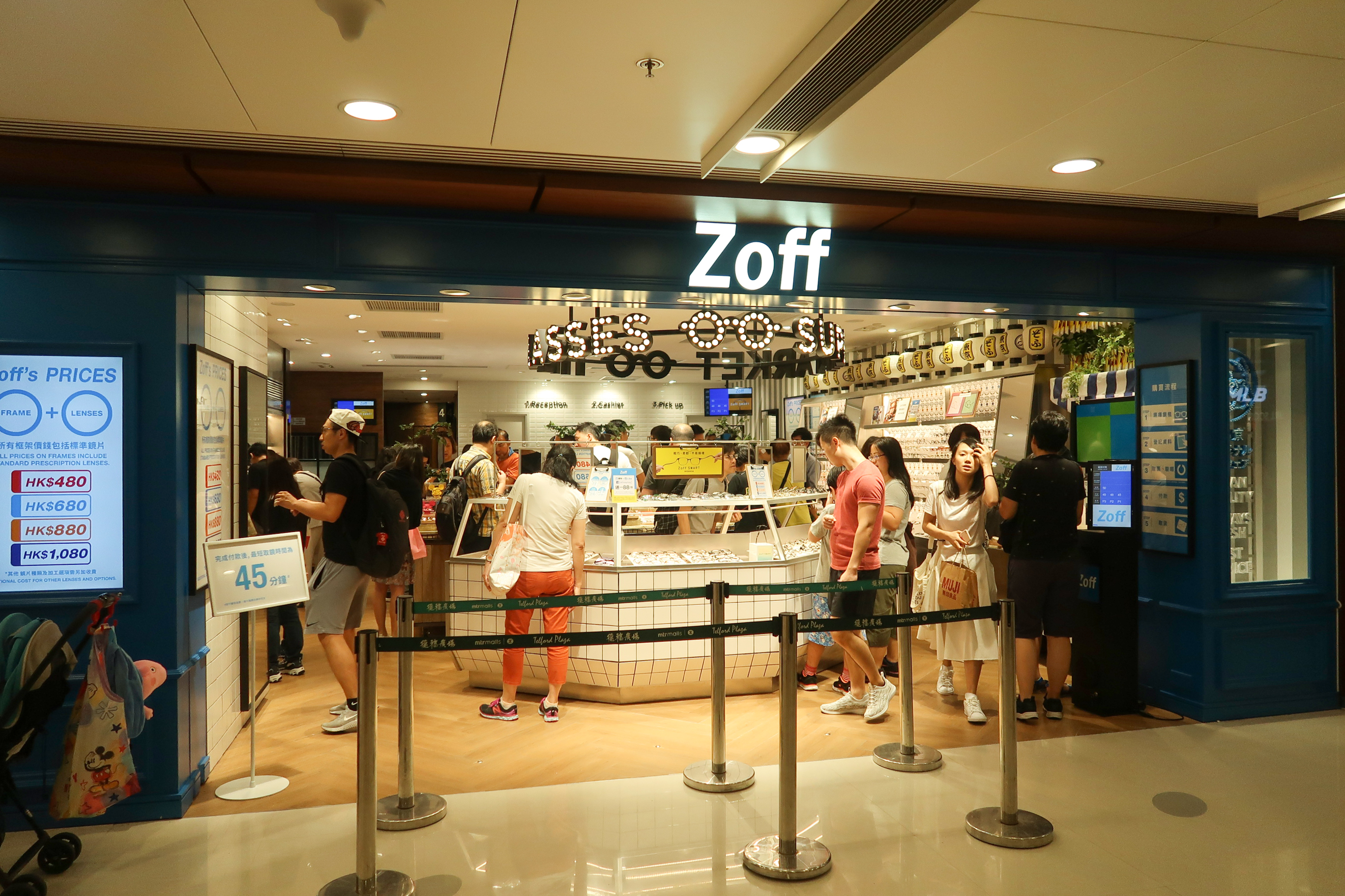 Zoff in Telford Plaza